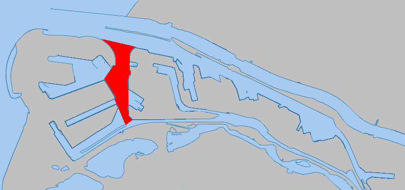 A map indicating the location of the above harbour in the Rotterdam harbour area.